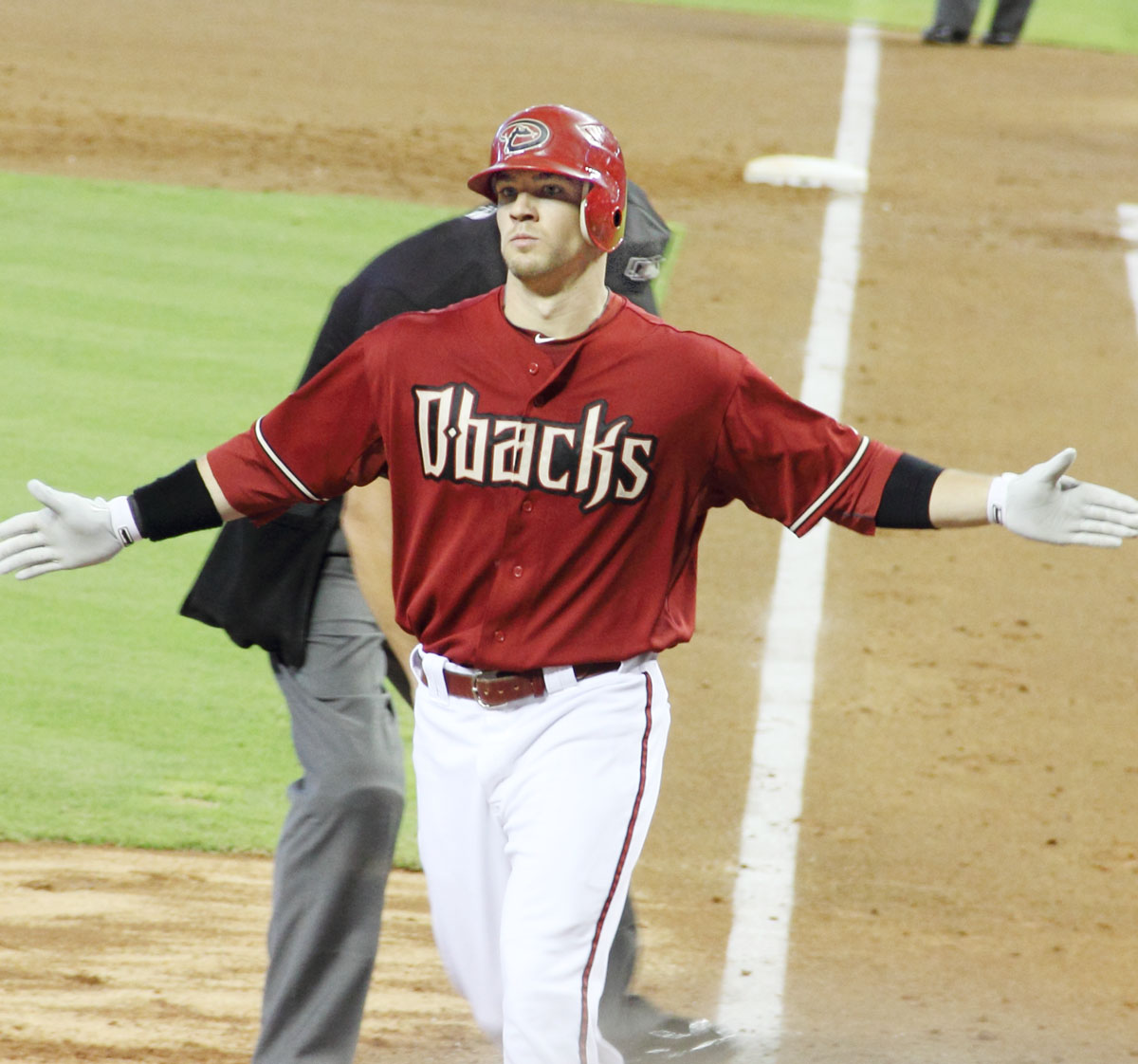 cowgill, 28 August, 2011, this is my own work